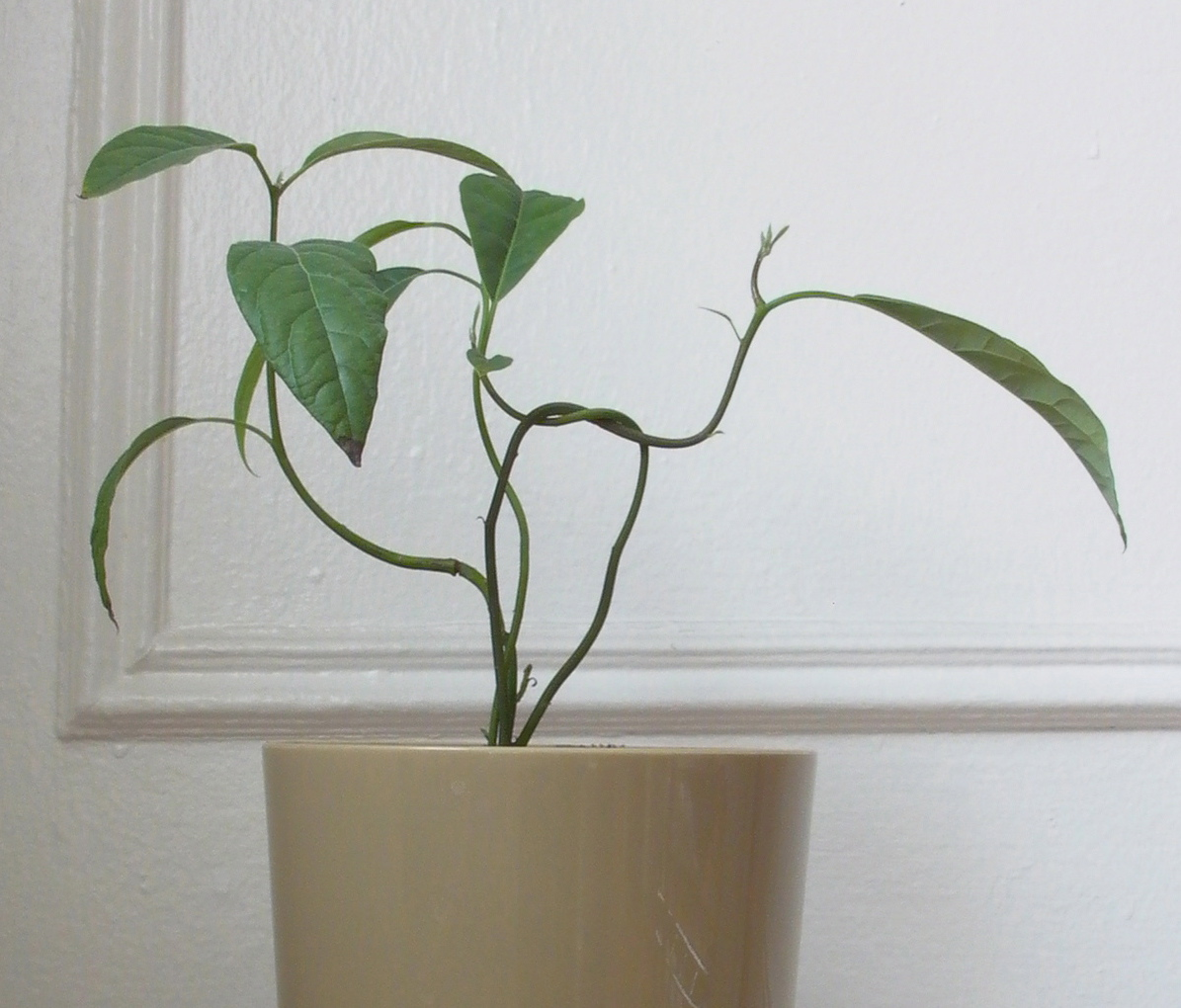 author=uploader